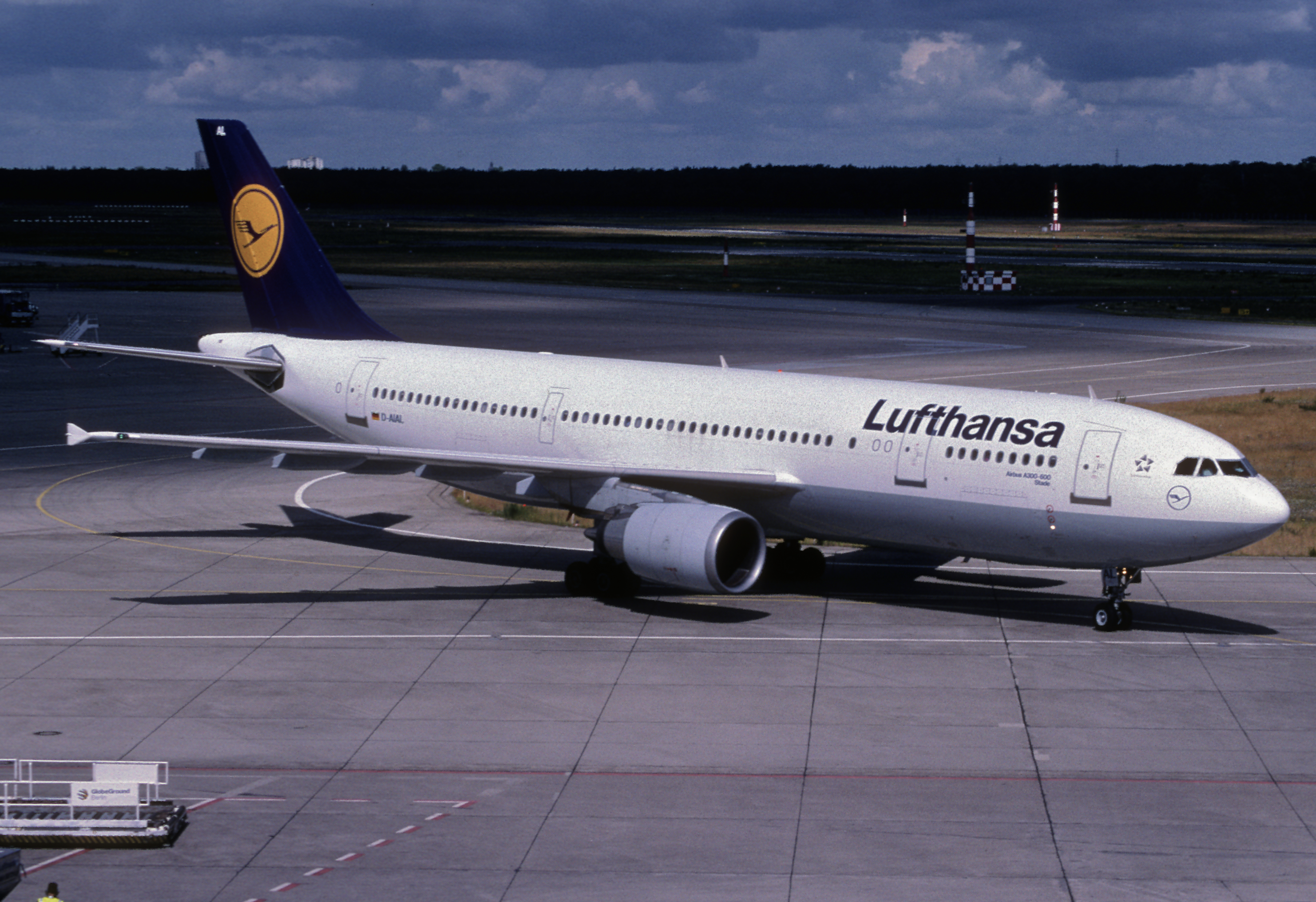 First flight: February 3, 1987...(c/n 405) 18/04/1987 Lufthansa D-AIAL stored at Hamburg 07/05/03 - back in service 16/03/04 - named 'Stade' - stored 05/2009 25/10/2010 Mahan Air EP-MNH